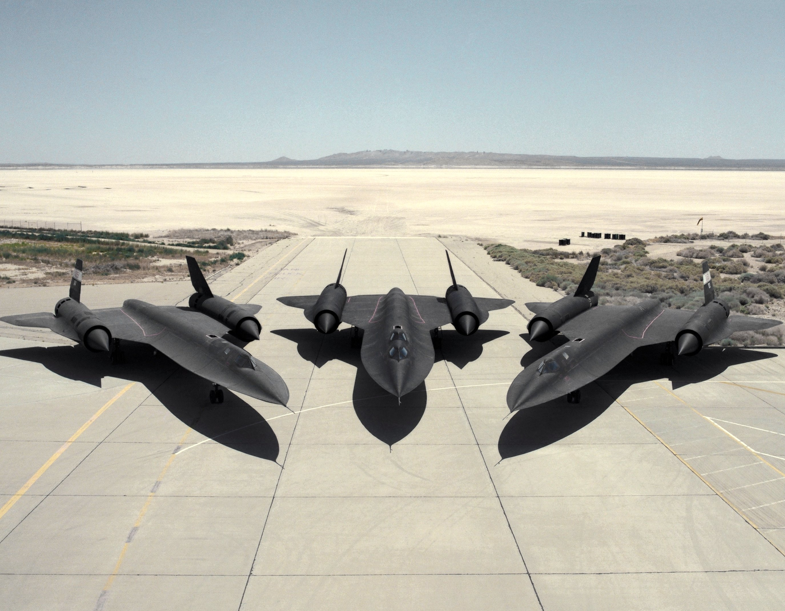 The Lockheed SR-71.